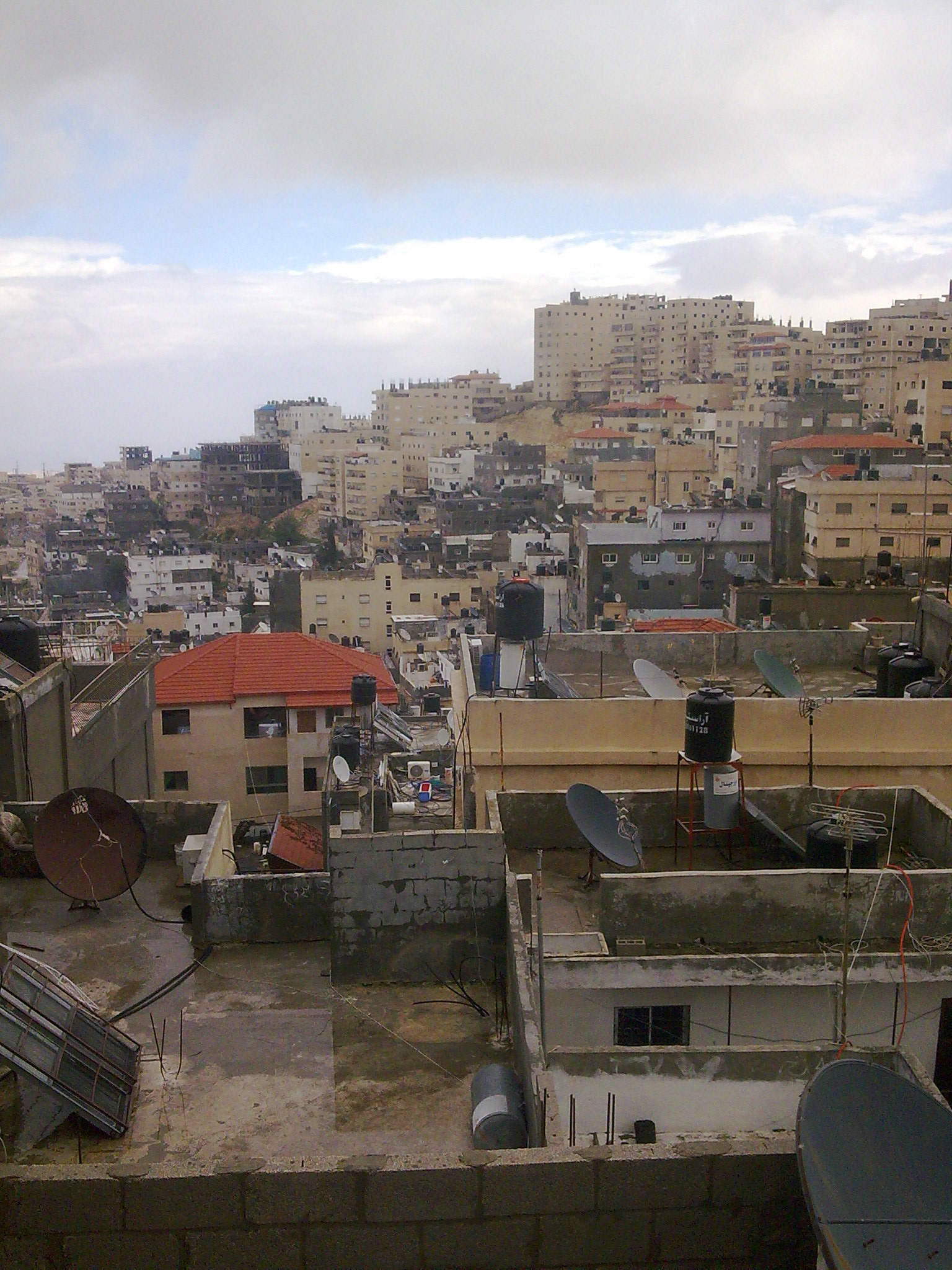 Shufat camp.